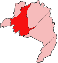 Map of Lofa County, Liberia showing Kolahun District; created with the GIMP. Made by User:Acntx.